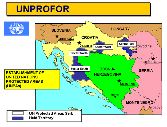 The United Nations Protection Force (UNPROFOR) was given the mission of demilitarizing UN protected areas (UNPAs) in Croatia and establishing conditions of peace and security that would facilitate the negotiation of an overall settlement of the Yugoslav crisis.